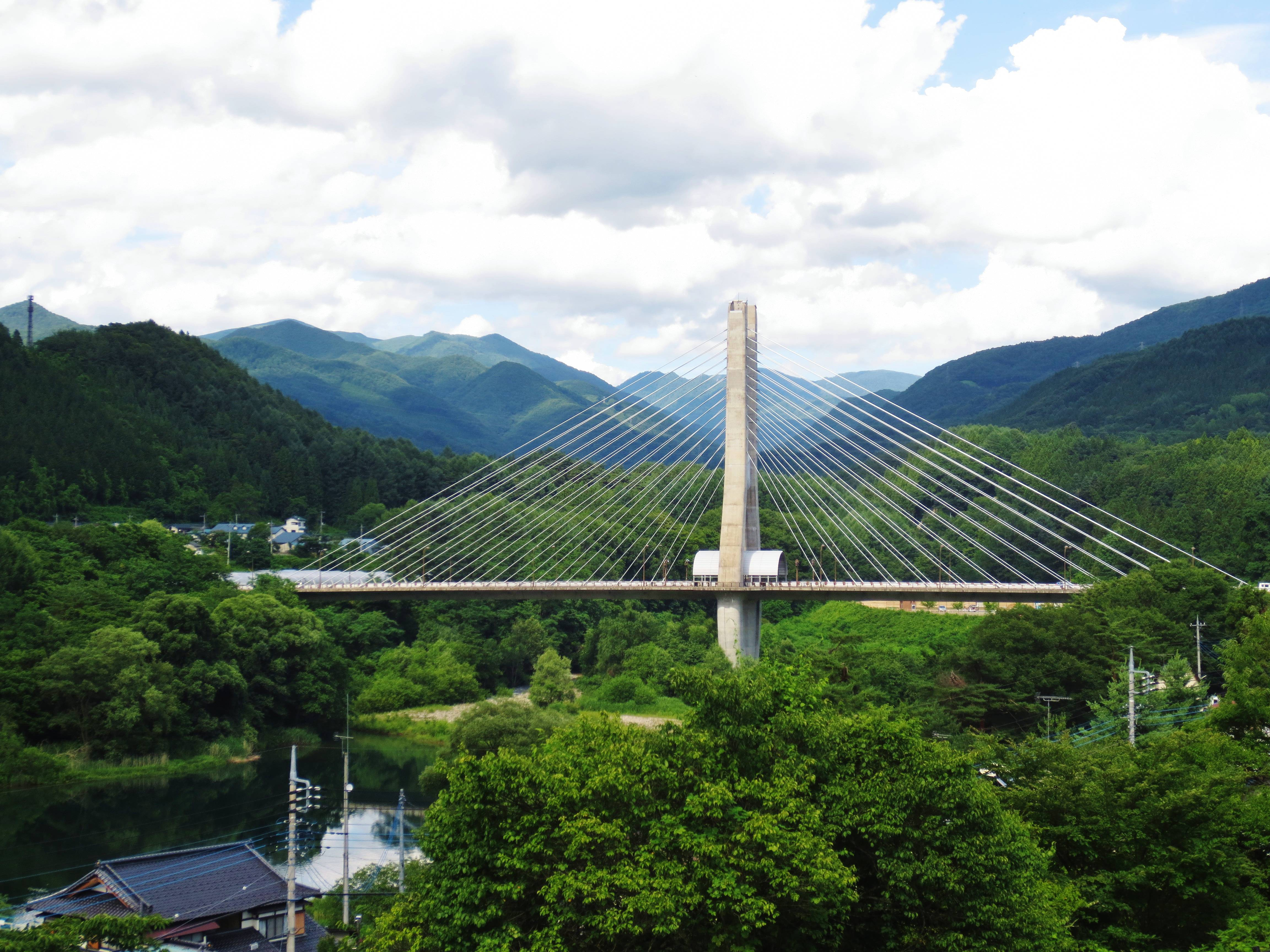 Oze Ohashi bridge.